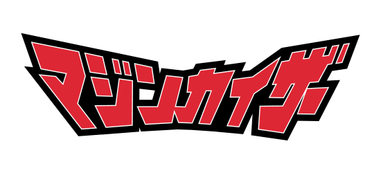 Logo for the Mazinkaiser OVA series (Majinkaizâ) (2001). Traced using Adobe Illustrator CS2's Live Trace feature.